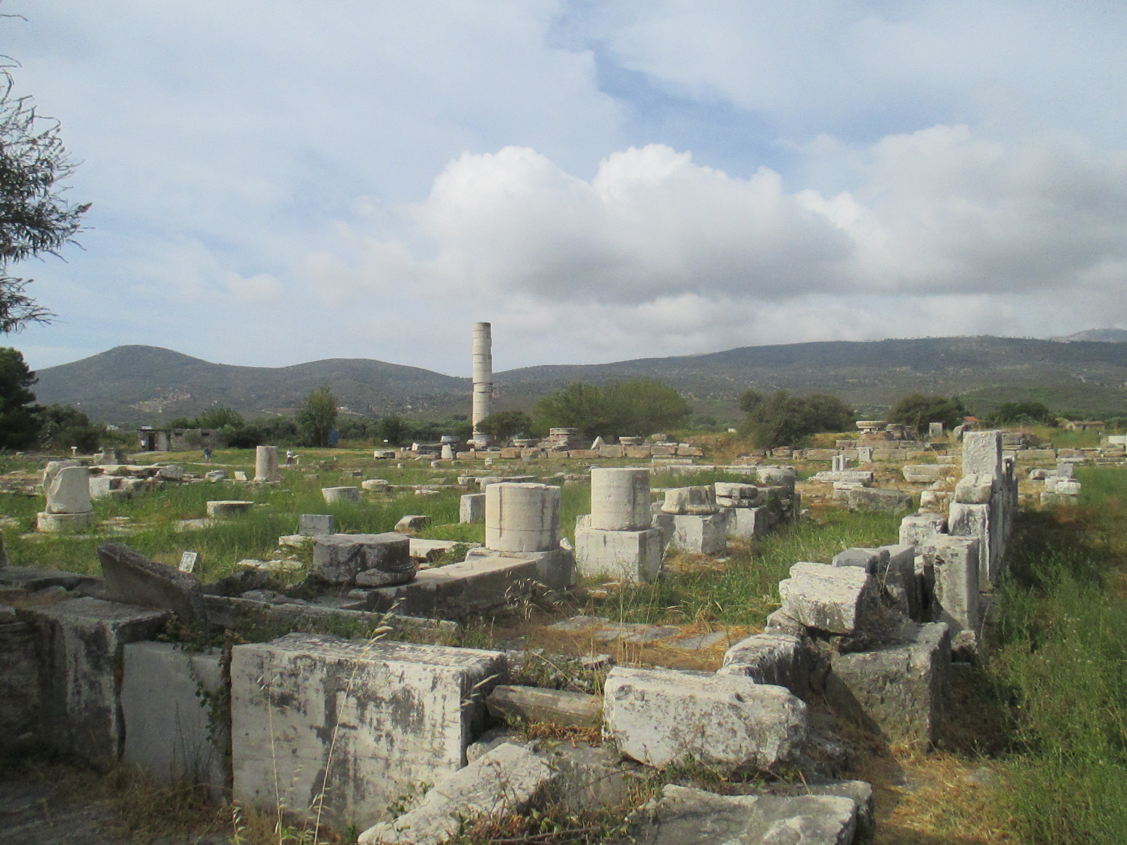 Heraion of Samos.